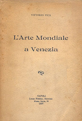 Front cover of Vittorio Pica, L'Arte Mondiale a Venezia, Napoli, Luigi Pierro editore, 1897.